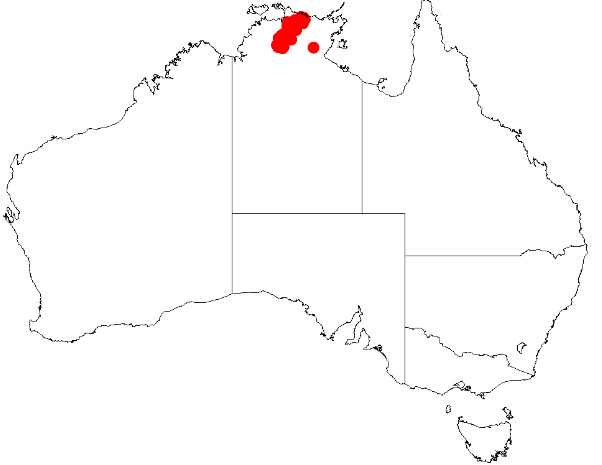 Acacia sericoflora Occurrence data from Australasia Virtual Herbarium downloaded from on 8 December 2018